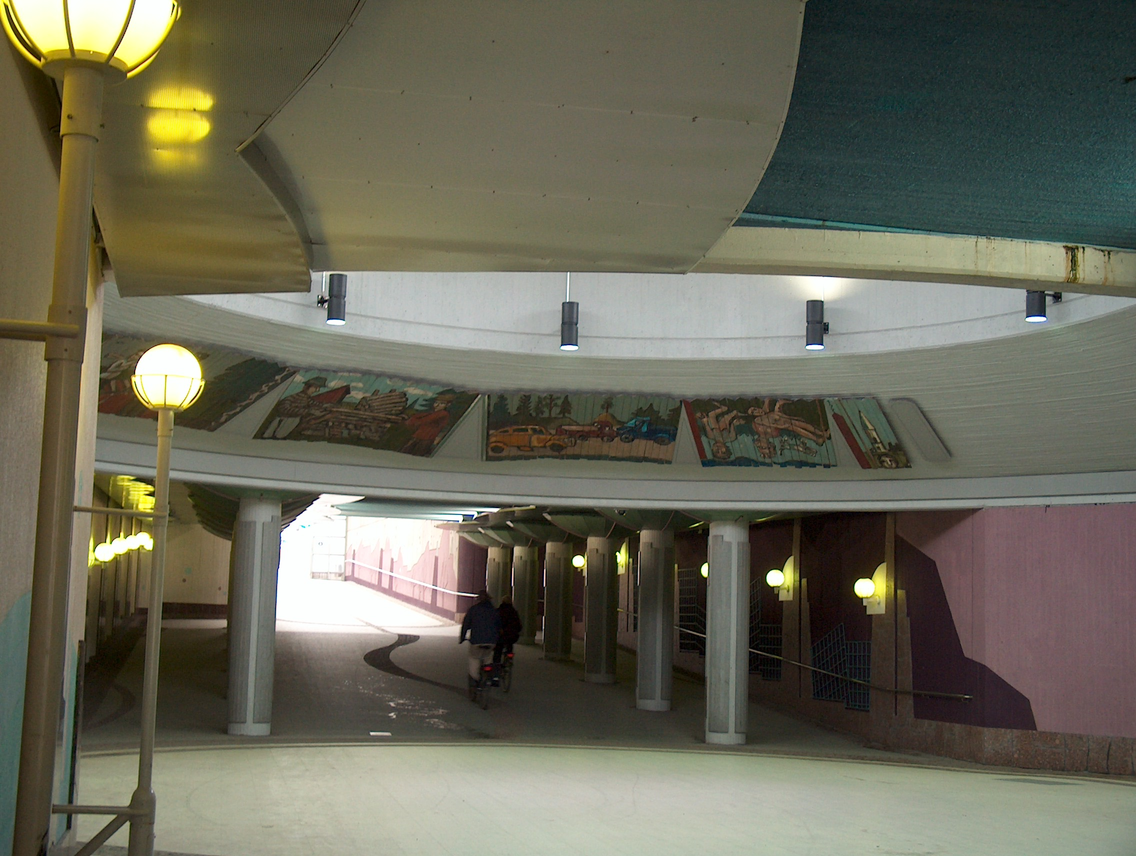 The Sampola underpass in Kerava, Finland is decorated by paintings of Alpo Jaakola.